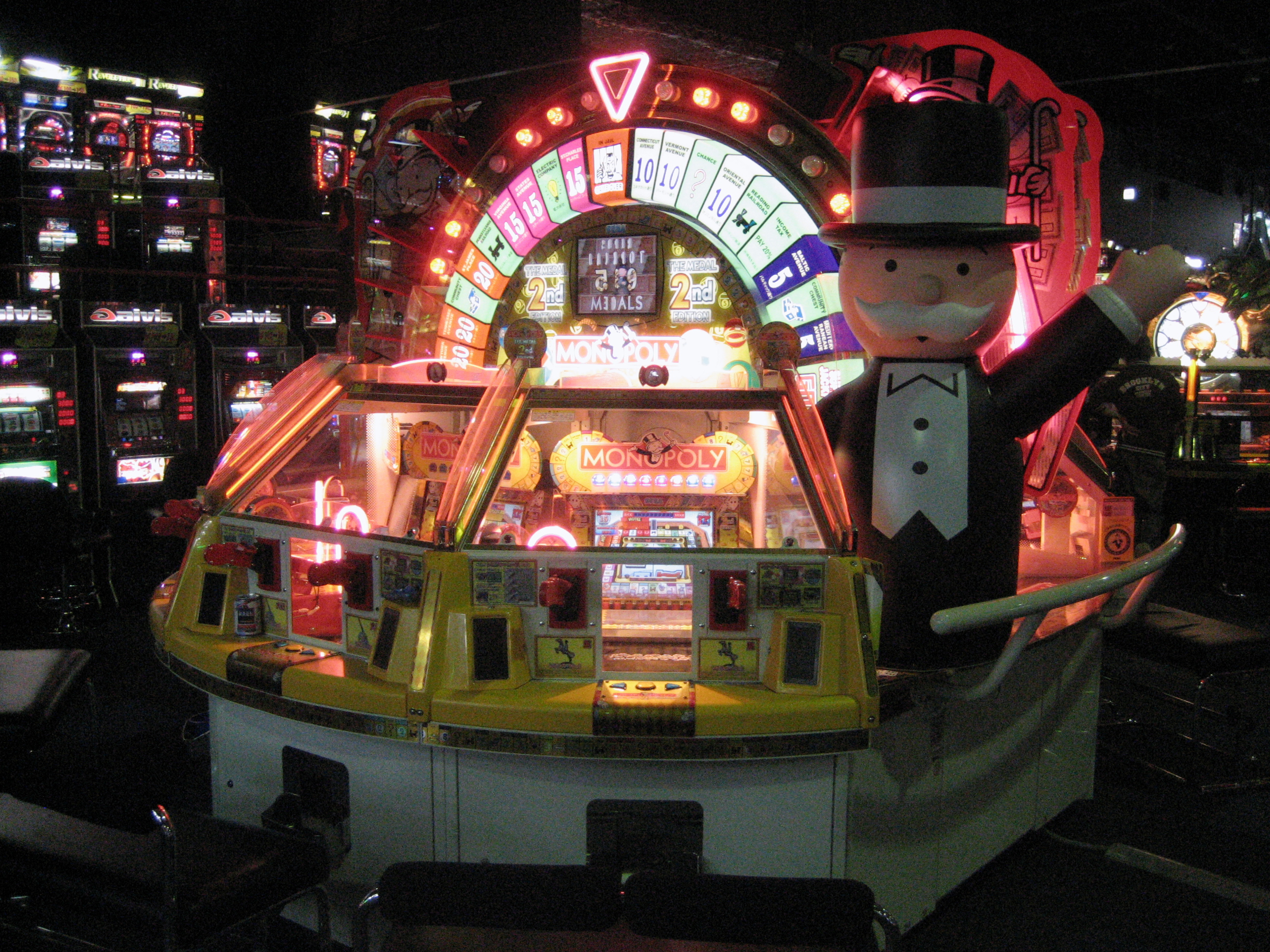 Arcade game of Japan. one of game machines called medal game.